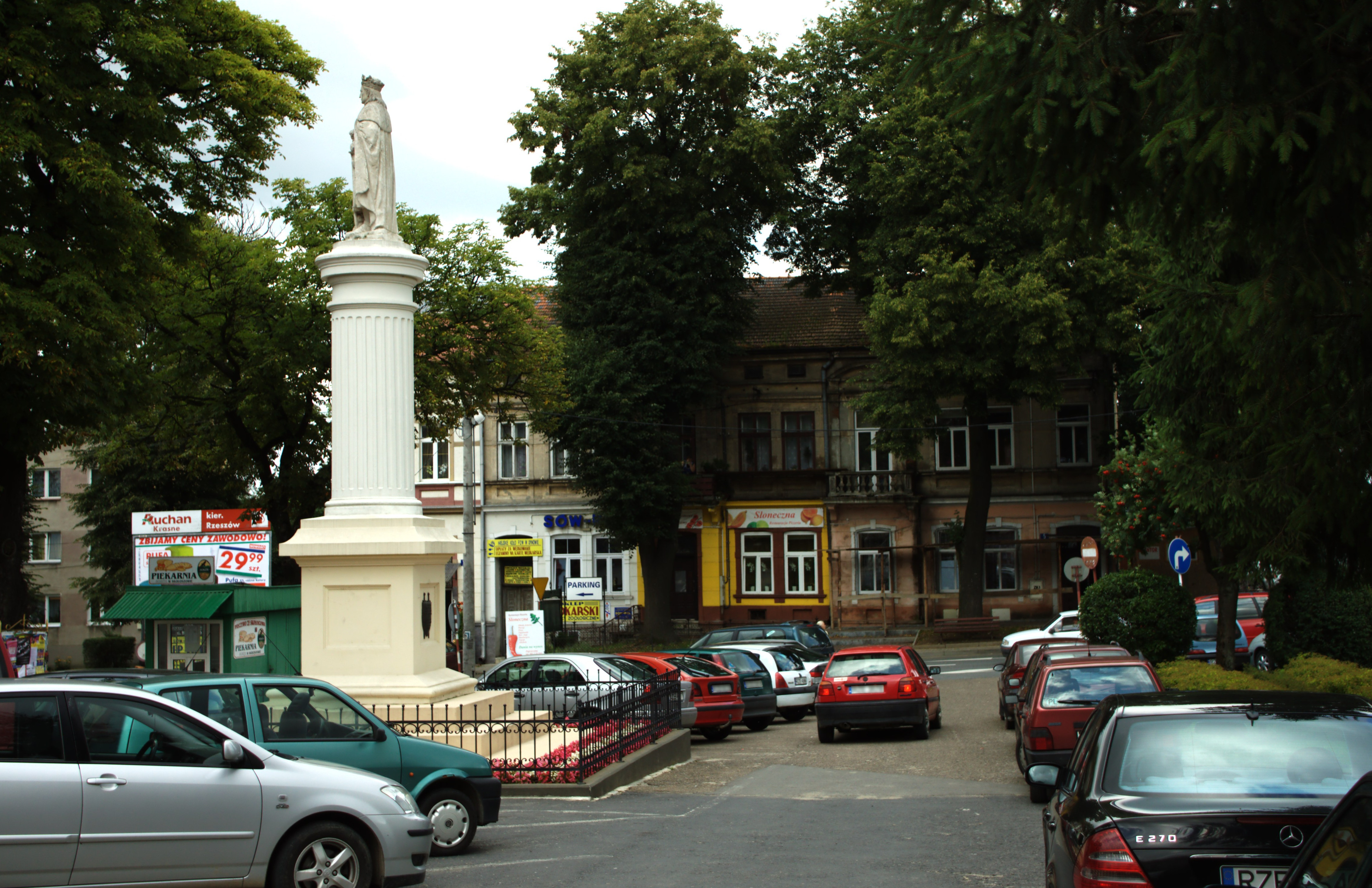 Main square in Dynów, Podkarpackie voivodeship, PL